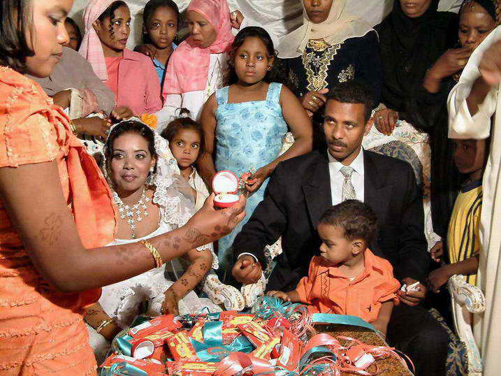 De es::en:Image:Egypt-Nubian weeding.jpg Nubian Wedding near Aswan. More pictures of my travel in Egypt and Israel at